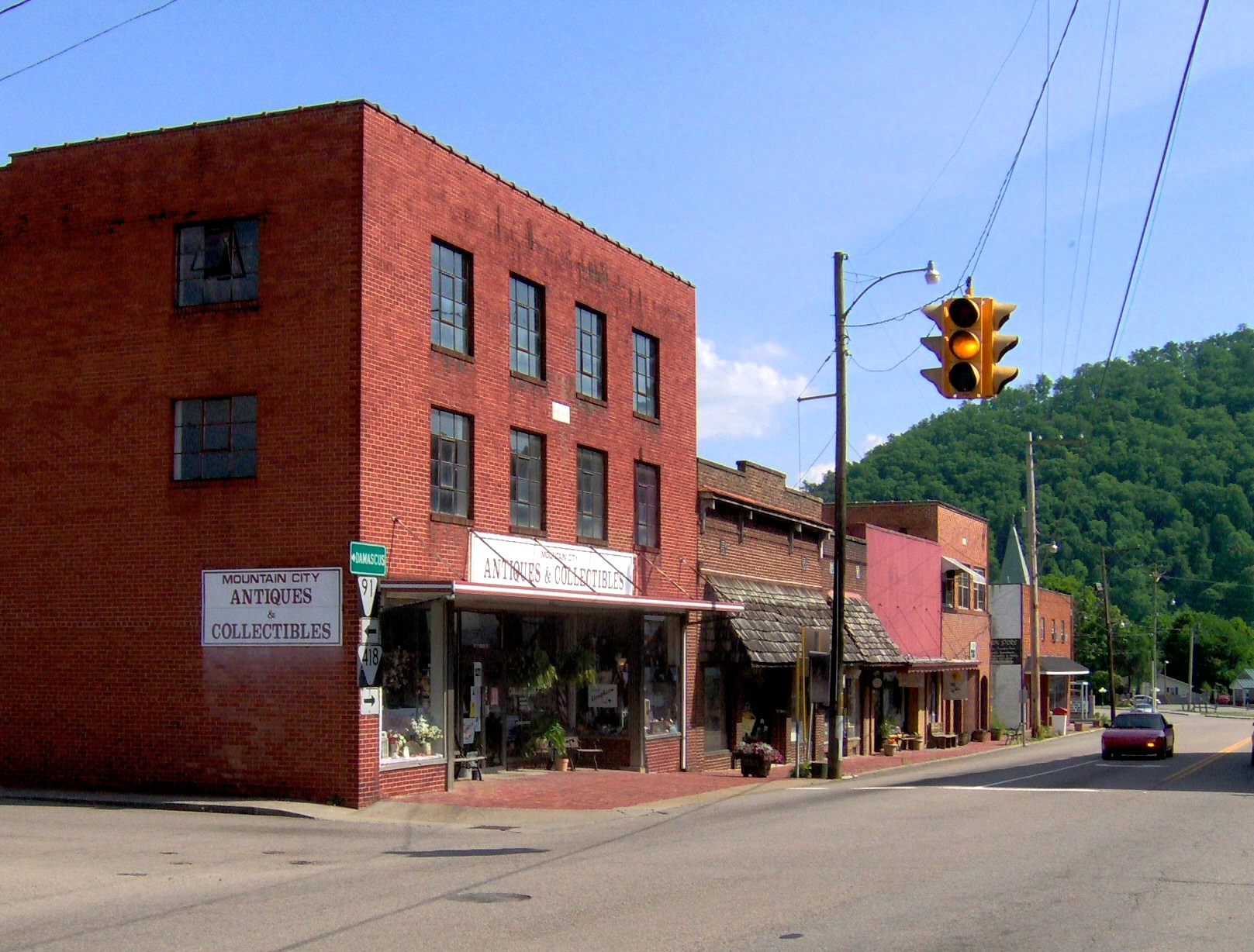 The intersection of North Church (TN-91), South Church (TN-418), and Main (TN-67) streets in Mountain City, in the U.S. state of Tennessee.